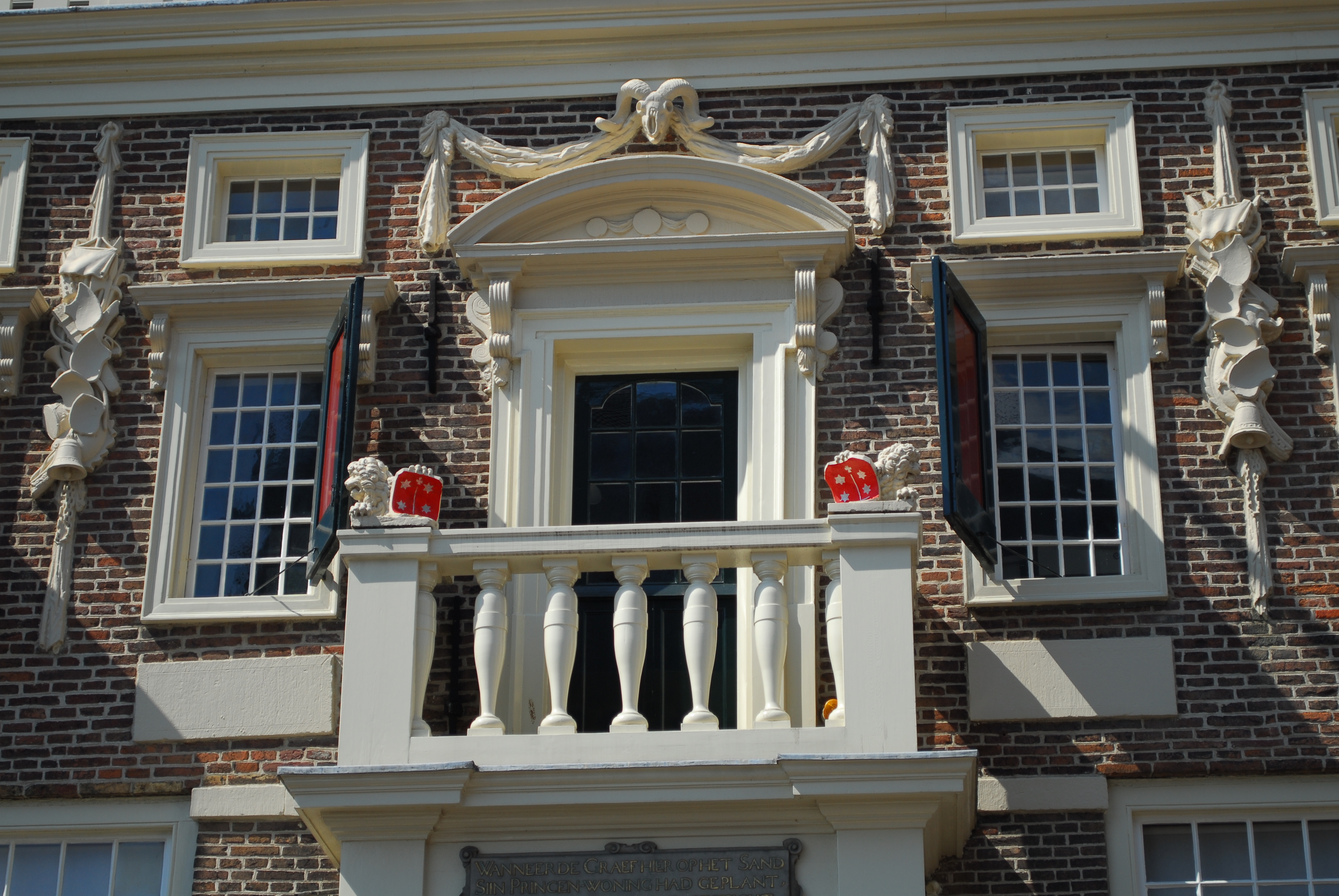 A detail of the Hoofdwacht in Haarlem, Grote Markt